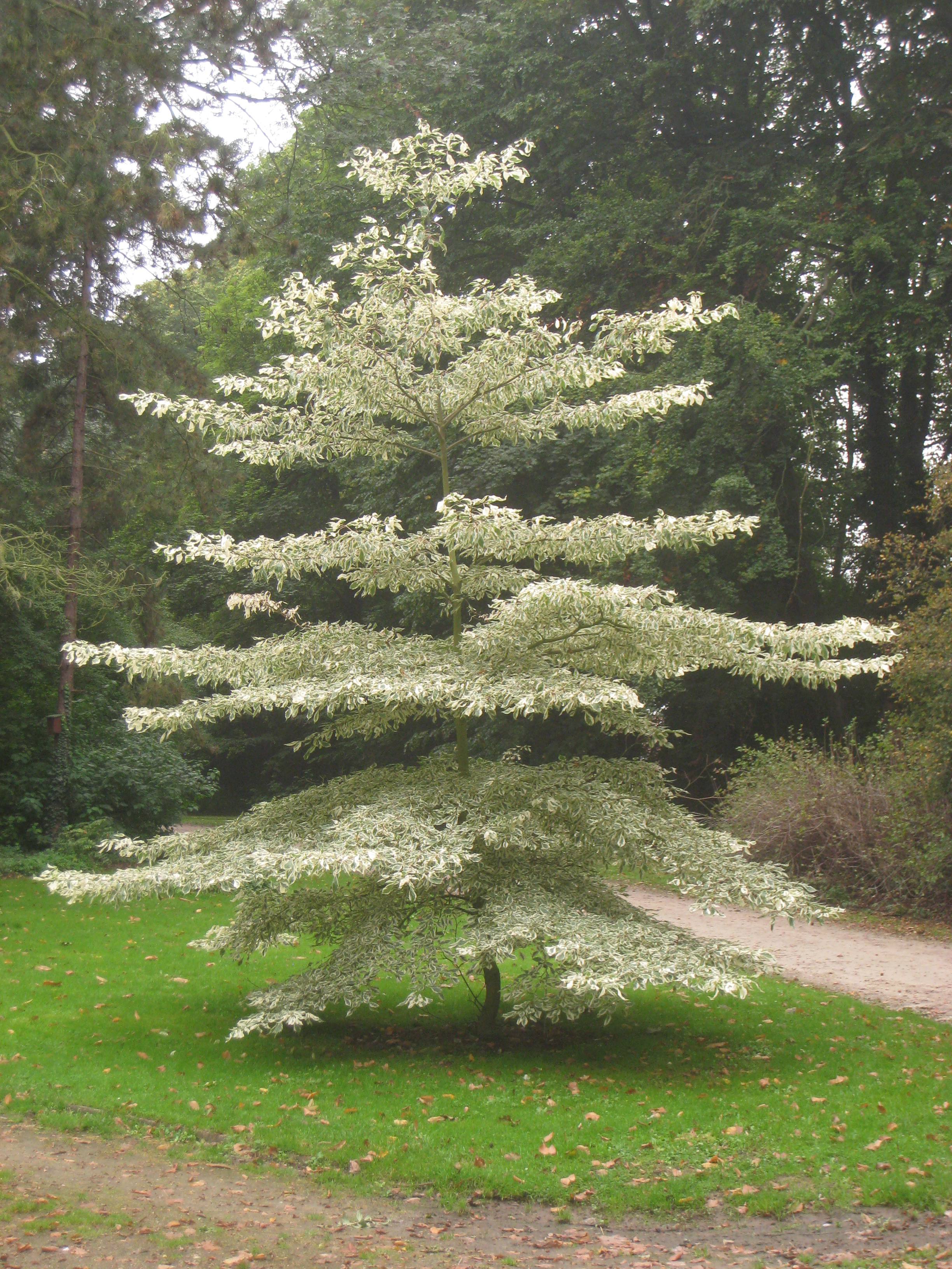 Cornus controversa specimen in the National Botanic Garden of Belgium, Meise, just north of Brussels, Belgium.